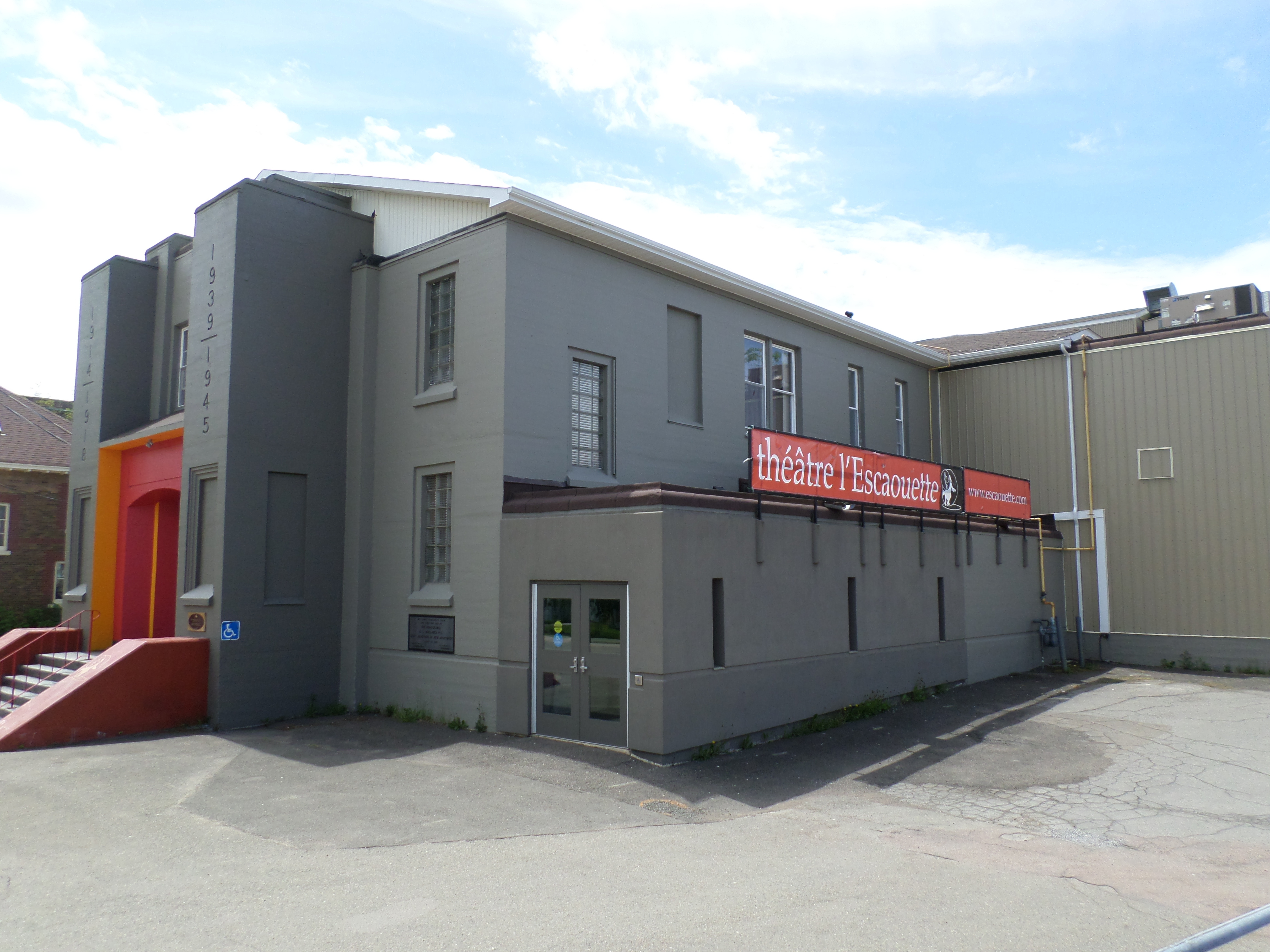 Théâtre l'Escaouette at Moncton